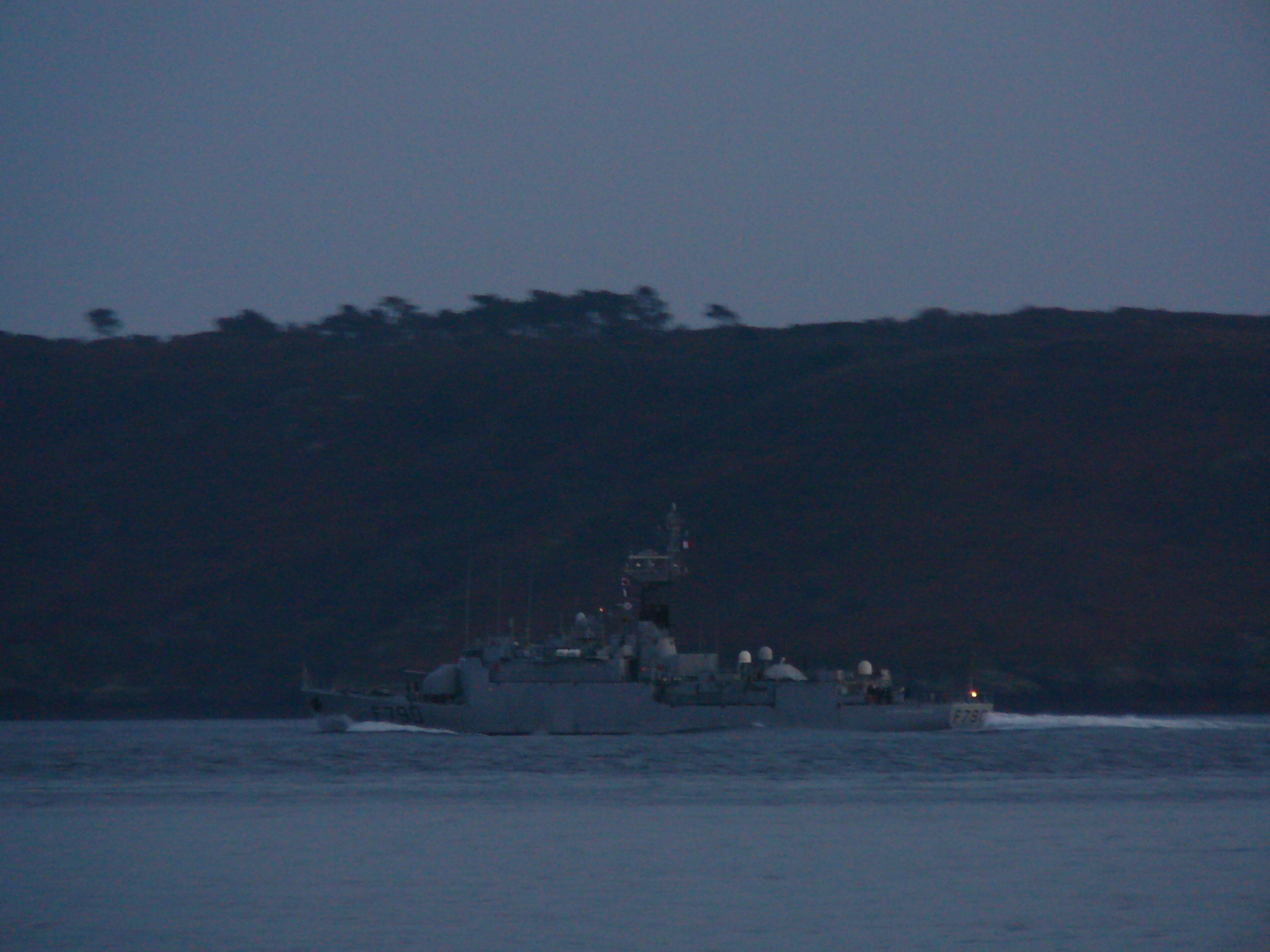 F790 in Brest